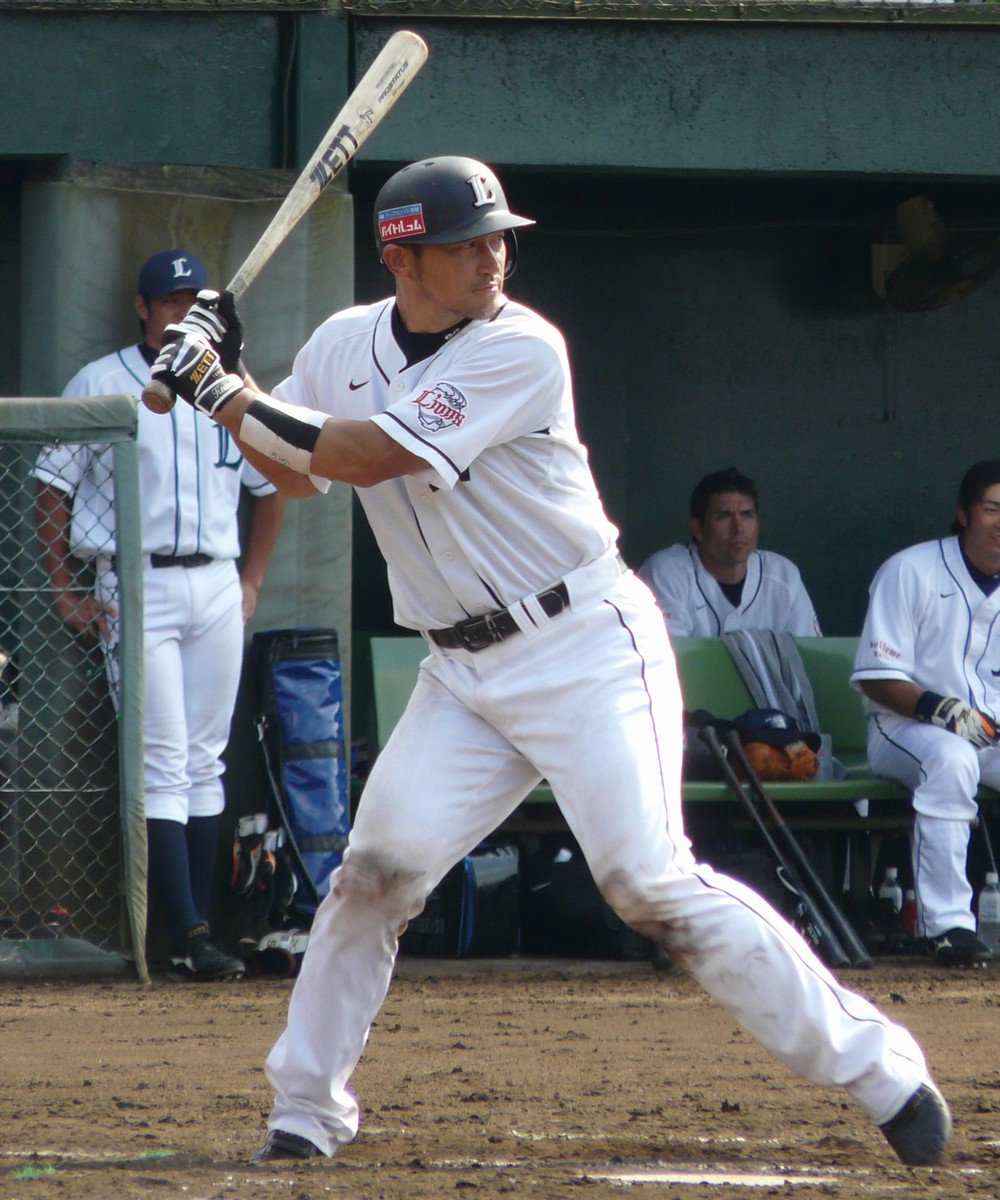 Kouji-Mitsui